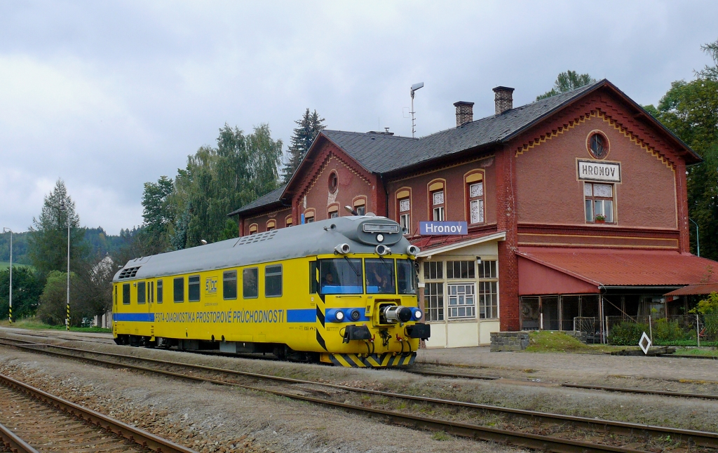 CZ Class FST 4 of SŽDC.